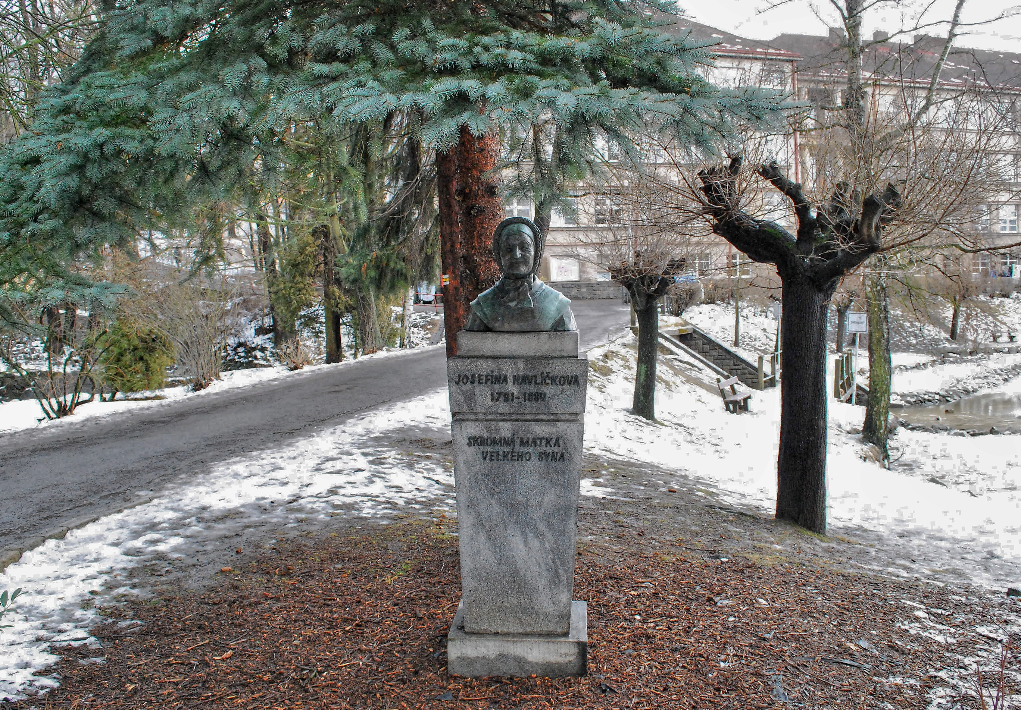 Monument Mothers Havlicek (Havlickuv Brod), City Park 'Future', Havlickuv Brod